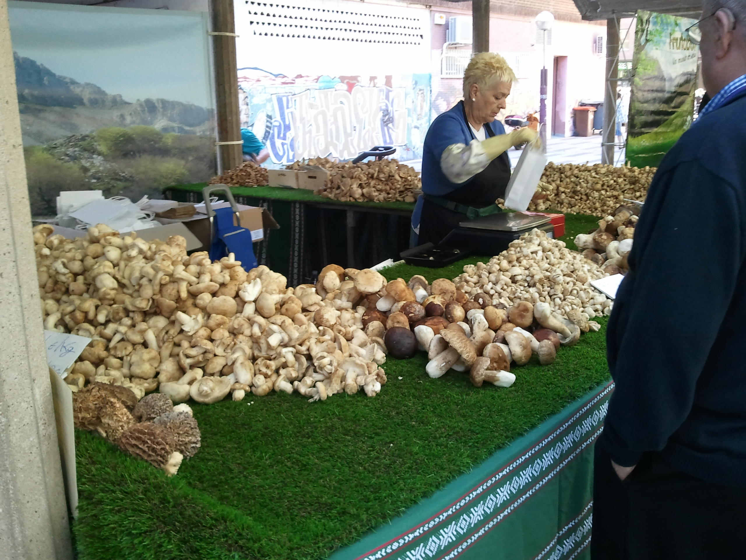 Mushroom dealer selling Calocybe gambosa, Boletus edulis and Morchella esculenta in Vitoria-Gasteiz (Basque Country) in spring 2013